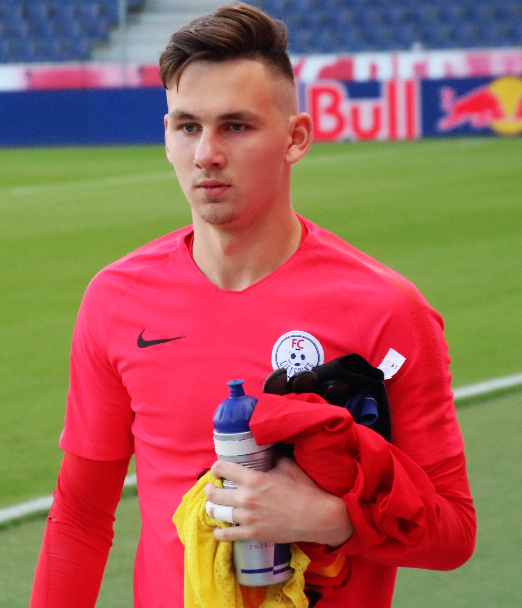 FC Liefering vs WSG Wattens (24. Mai 2019) 1:2 league match Austria 2nd league